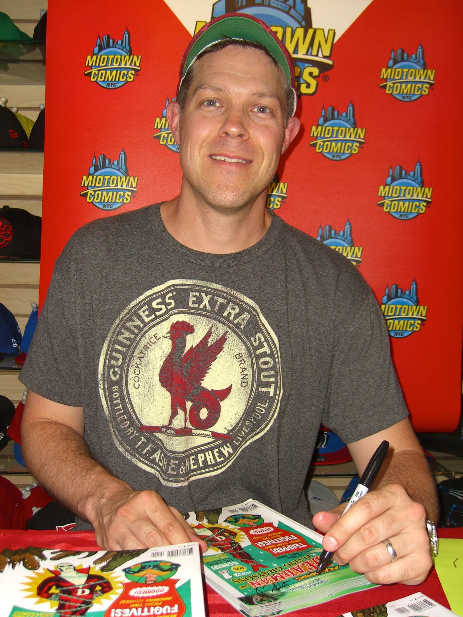 Television and comic book writer J.T. Krul at a signing for Teen Titans #97 at Midtown Comics Downtown in Manhattan, on July 13, 2011. Photographed by Luigi Novi. This photo is not in the public domain. It may, however, be used, modified and published for any purpose, free of charge, only if an easily visible credit to the photographer is placed near the photo in each instance in which it is used. (See licensing information below.) Publication of this photo without this proper attribution constitutes copyright infringement. For more information on my photos, you can contact me here.